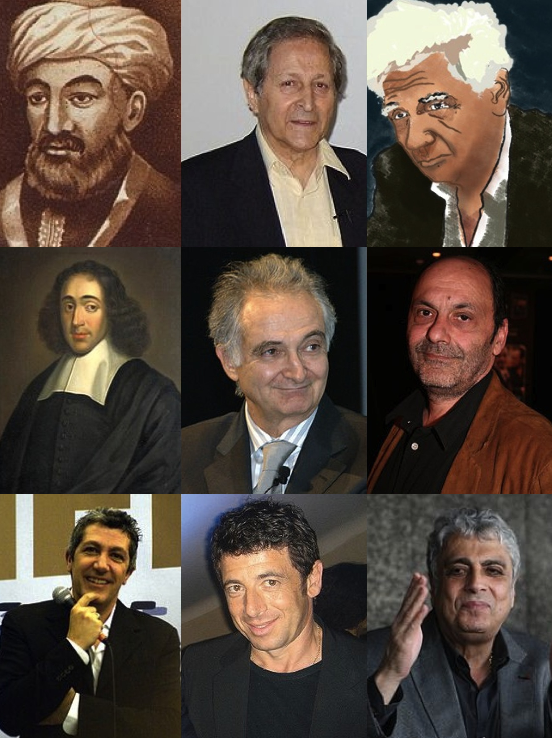 Nobel Laureate Claude Cohen-Tannoudji after a lecture at Ben-Gurion University of the Negev))